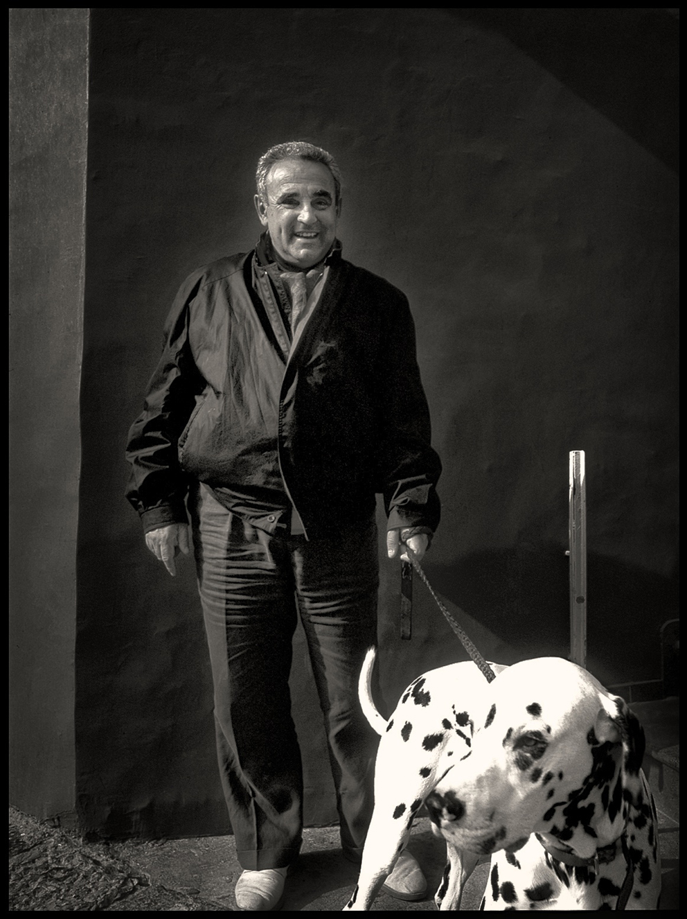 Portrait: Umberto Tirelli (Italian tailor, costume maker and designer) - Augusto De Luca photographer